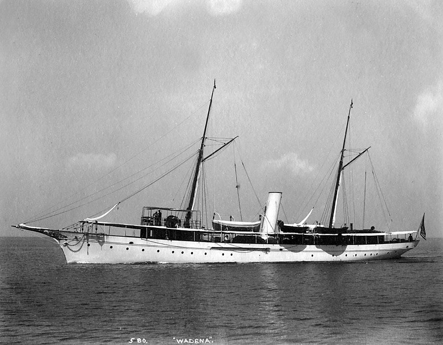 Photo #580: Wadena. The 1897 Record of American and Foreign Shipping records Wadena as a 158.8' steam yacht built in Cleveland, OH in 1891. In 1897 it was owned by J. H. Wade and its homeport New York.